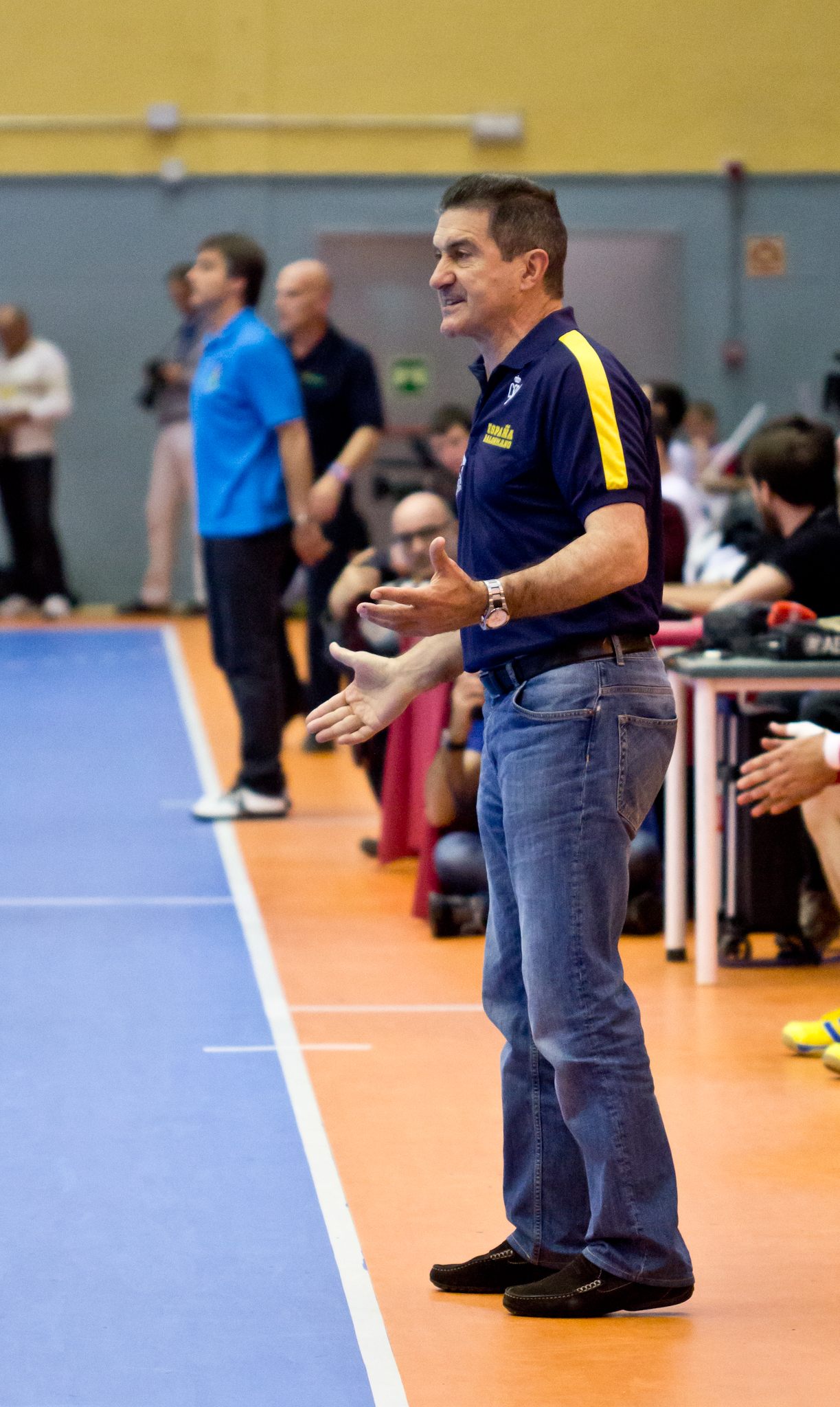 Manolo Cadenas, manager of the Spain national handball team, at the Handball All Star Game 2013, held in San Sebastián de los Reyes, Madrid, Spain.